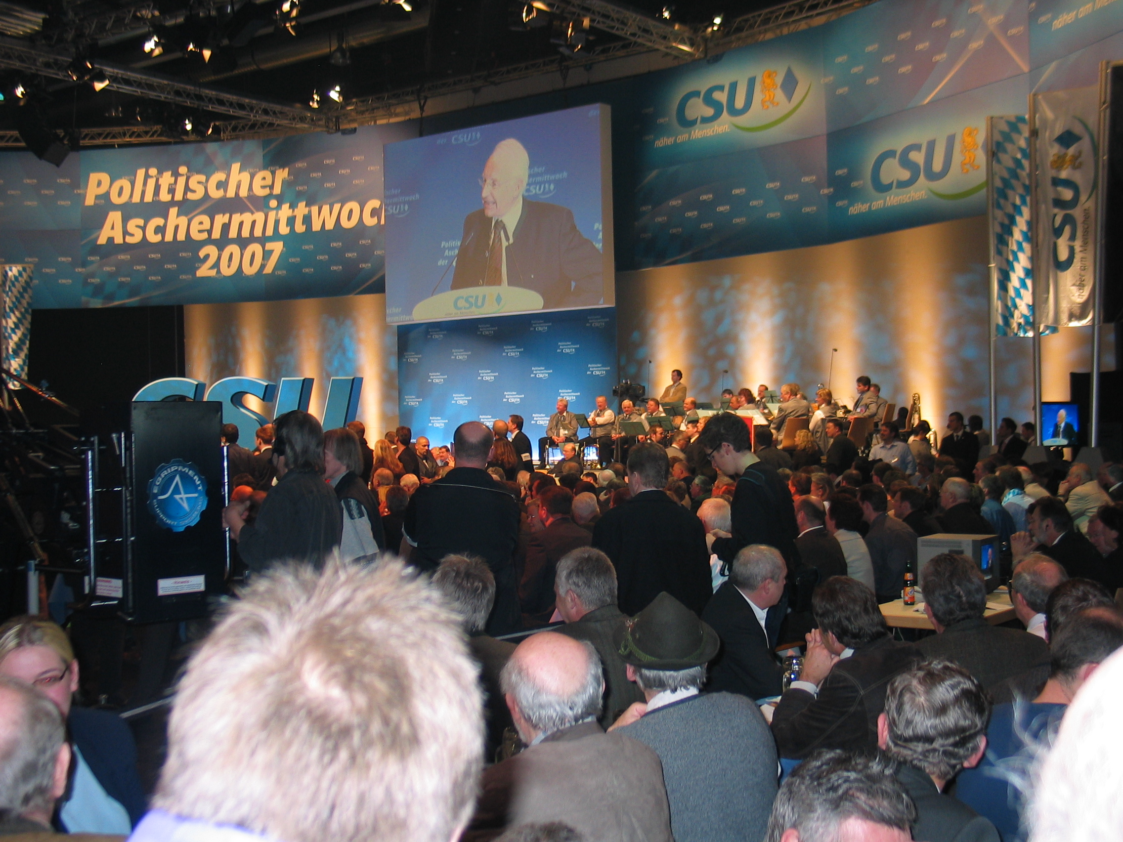 The traditional “Political Ash Wednesday” event of the Christian Social Union of Bavaria in Passau. Visible on the video screen is then-minister-president and party leader Edmund Stoiber.